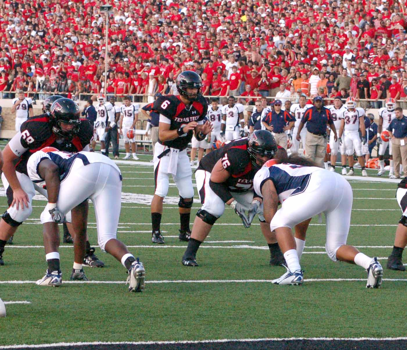 Graham Harrell leads the Texas Tech offense in action against UTEP.